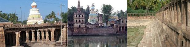 Banashankari Temple Tank near Badami